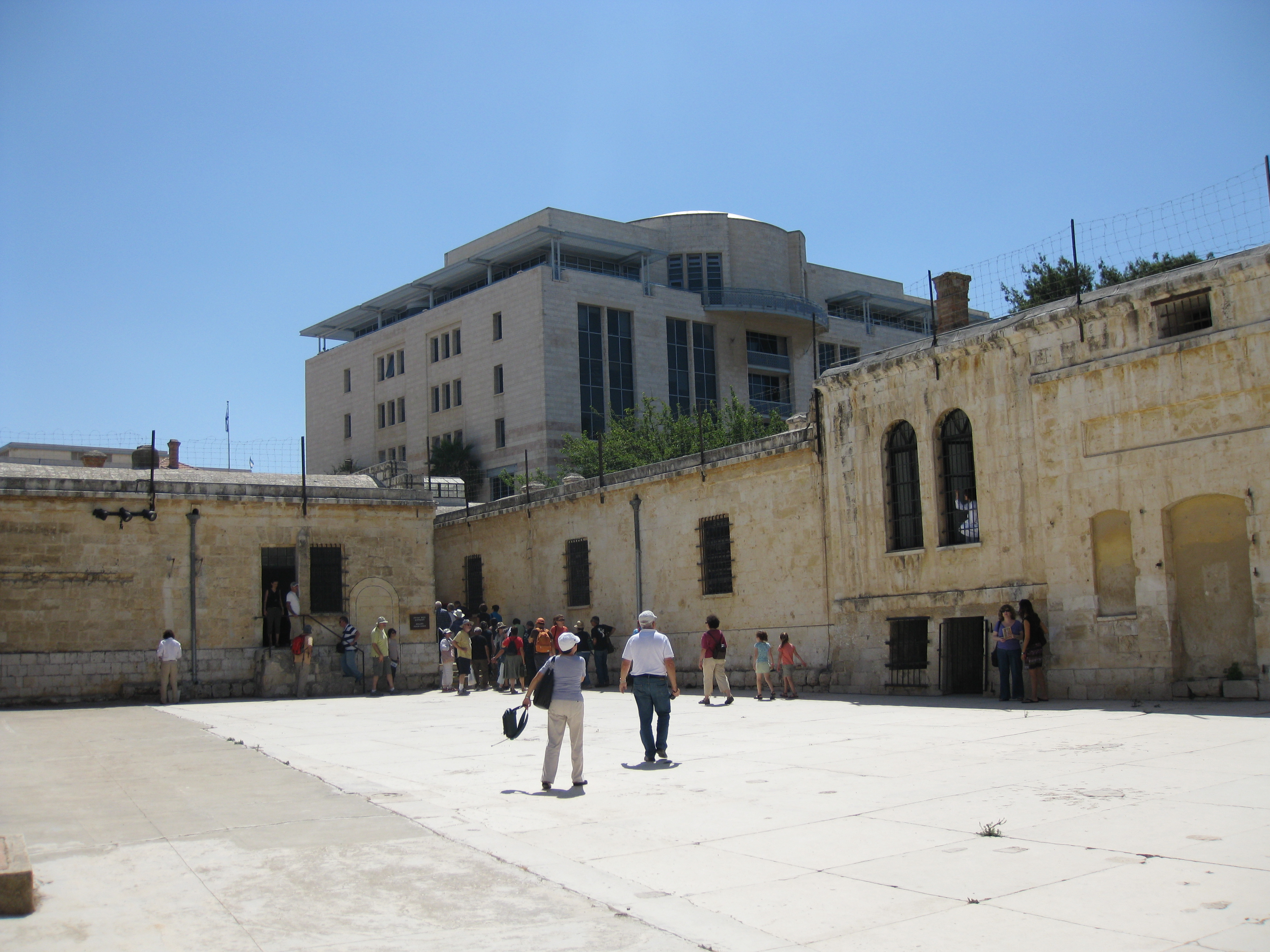 Museum of the Underground Prisoners מוזיאון אסירי המחתרות